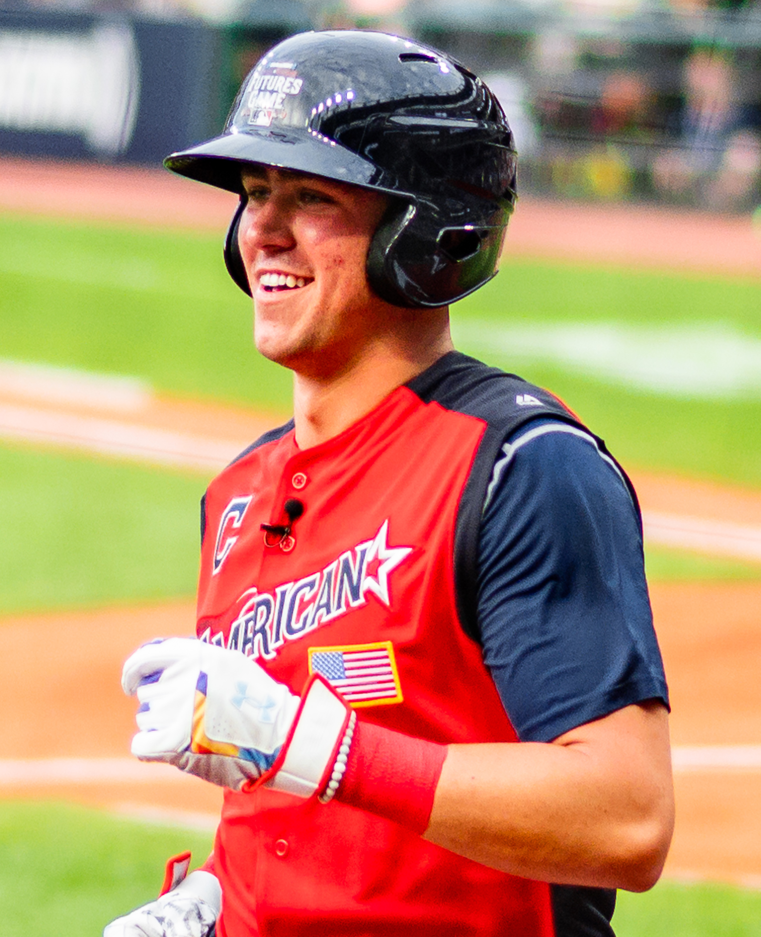 Nolan Jones at the 2019 All-Star Futures Game at Progressive Field in Cleveland